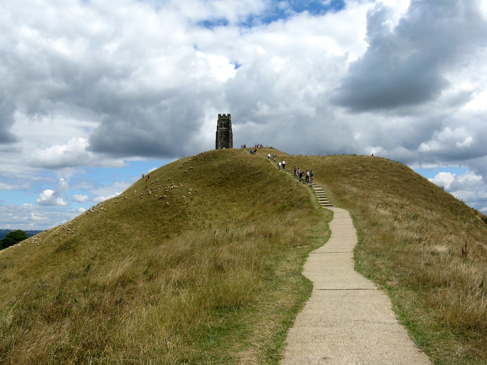 The final part of the walk up the 518 foot high Glastonbury Tor, Glastonbury, Somerset.